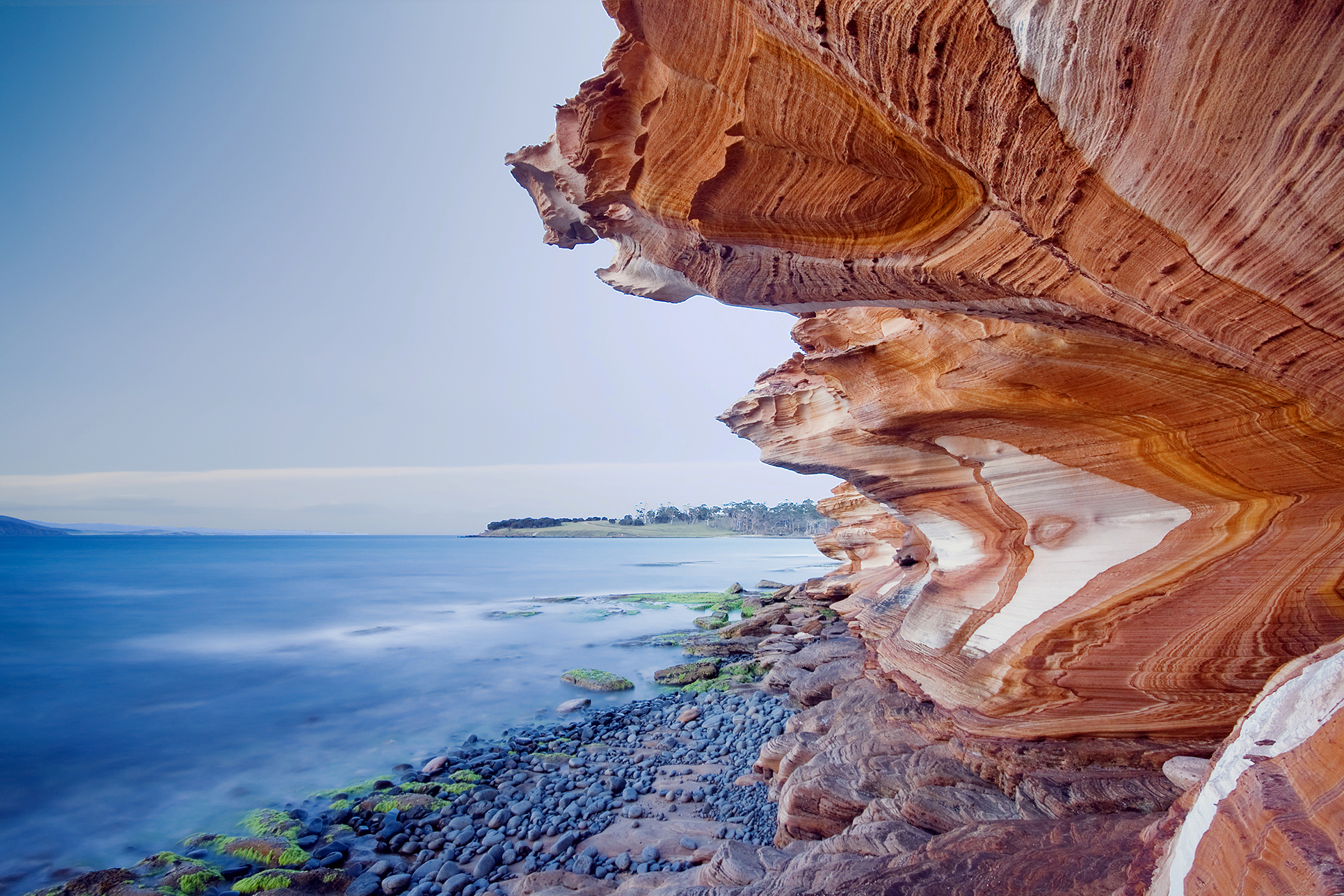 Painted Cliffs, Maria Island, Tasmania, Australia